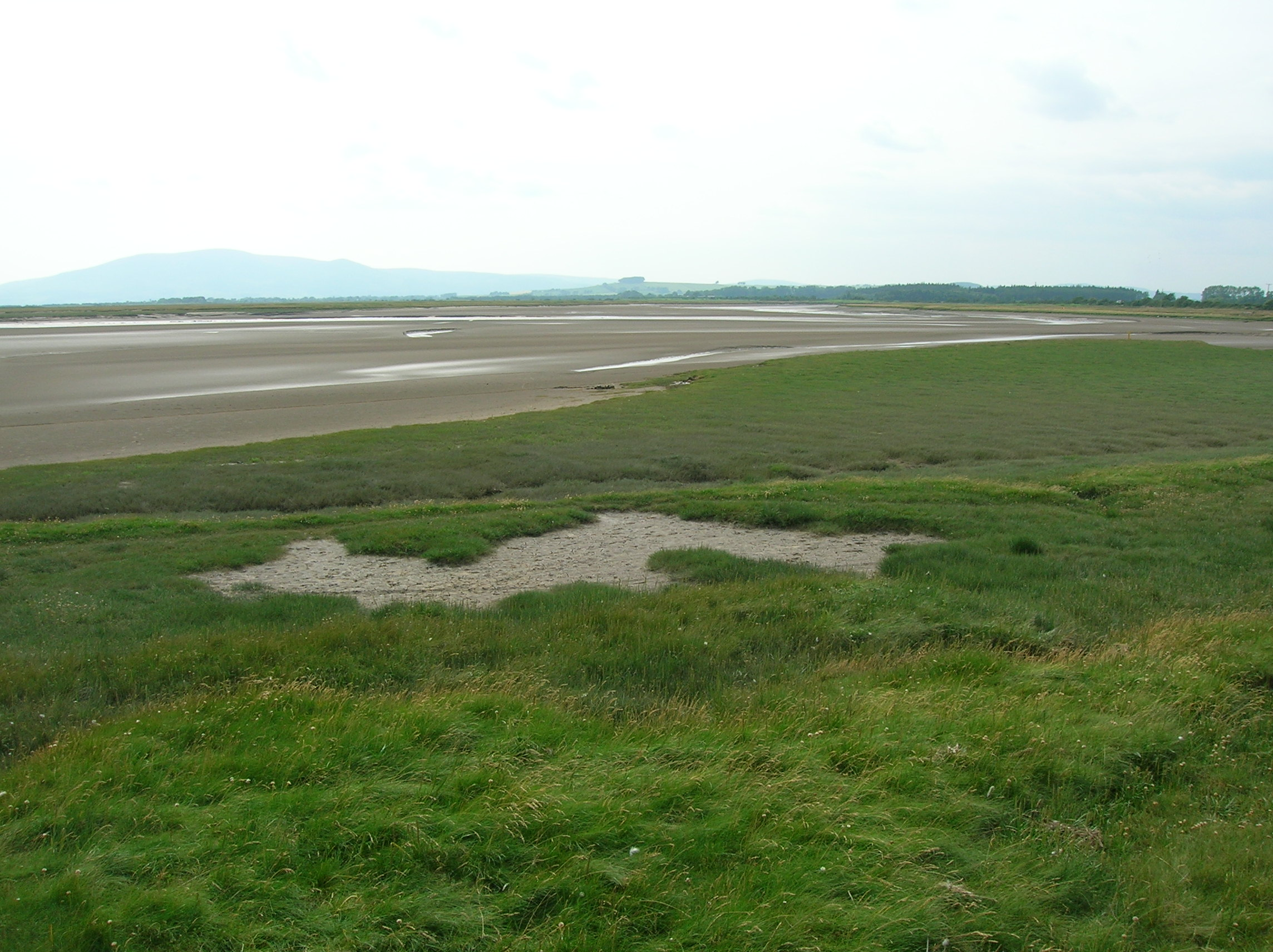 Brow Merse and the Lochar Bay, Ruthwell, Dumfries & Galloway, Scotland. Robert Burns spent a few weeks seabathing here a few days before his death.